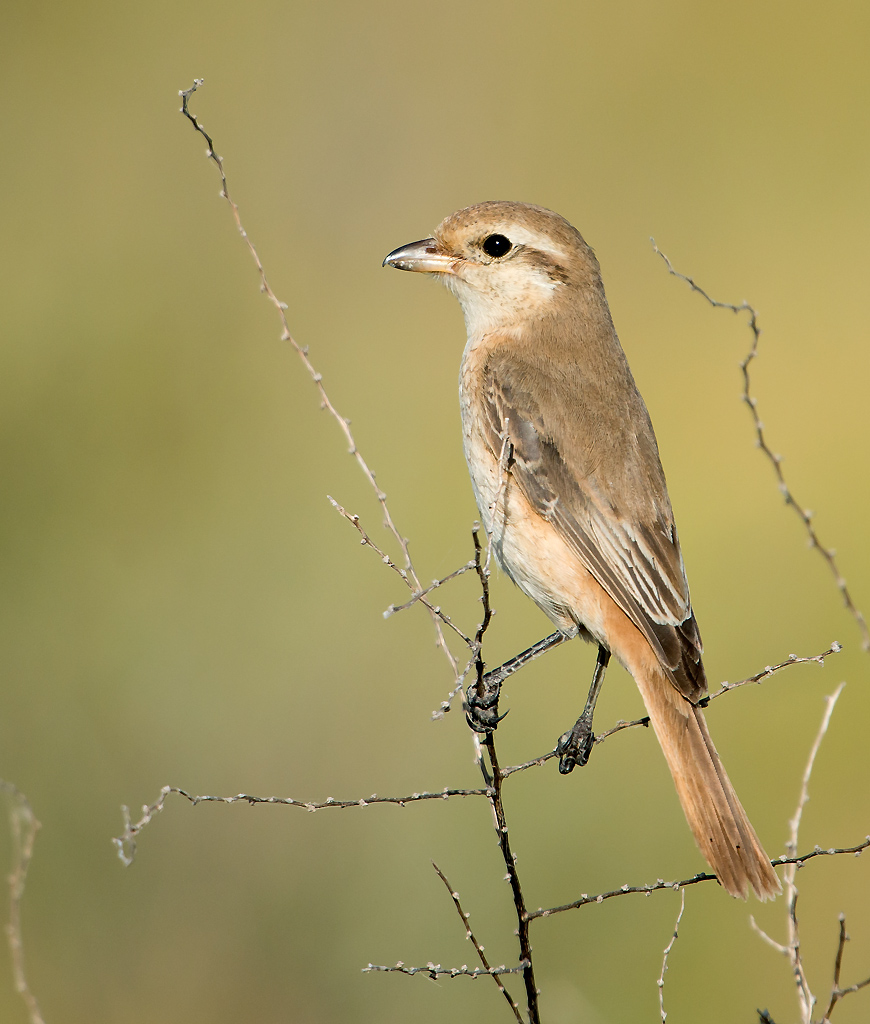 Rufous-tailed or Isabelline Shrike (Lanius isabellinus) is a winter visitor to the North Western parts of India. Inhabits arid and semi arid regions of Rajasthan, Gujarat, Haryana and parts of Maharashtra. Seen at Sultanpur, District Gurgaon, Haryana